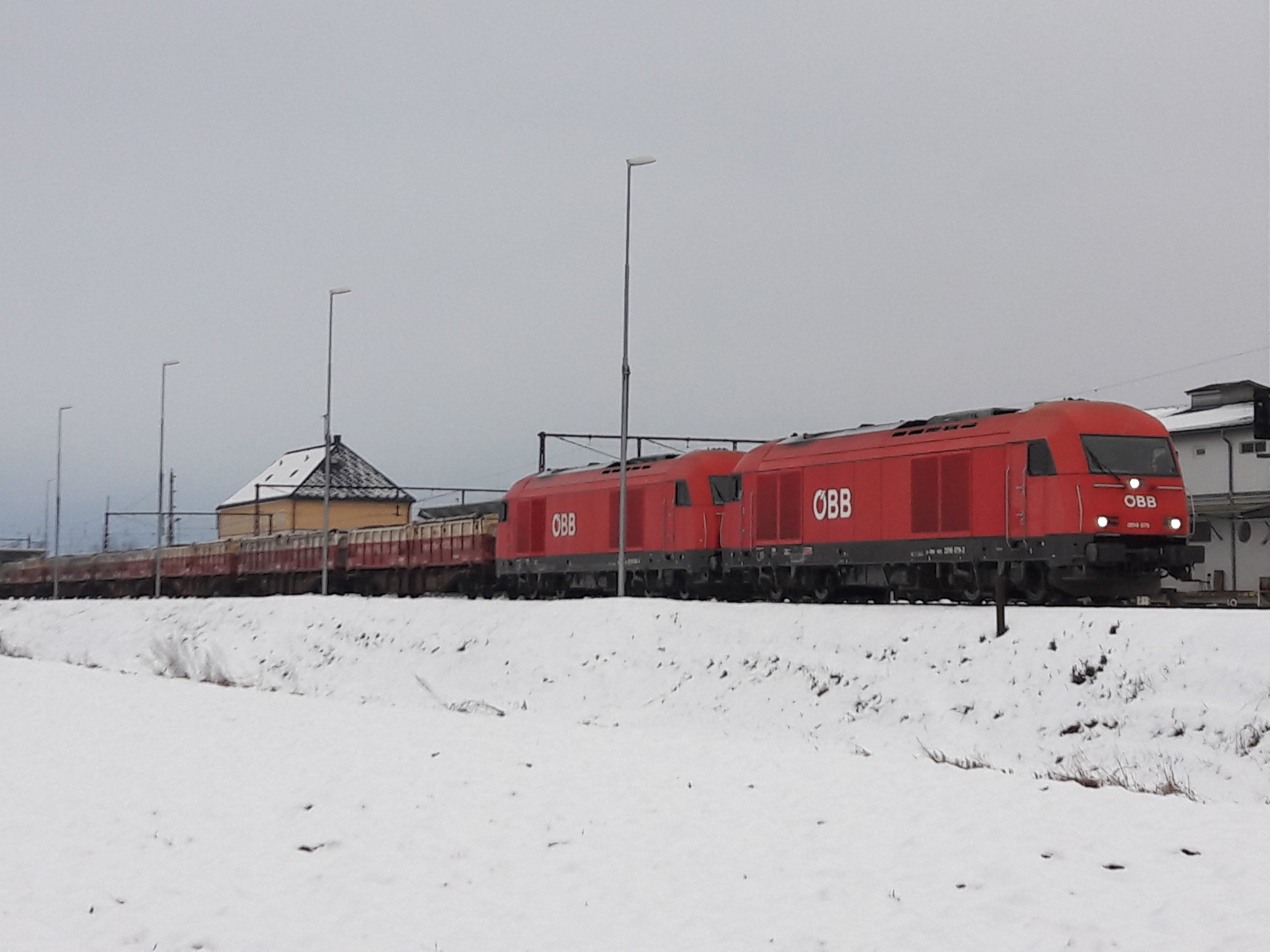 Güterzug